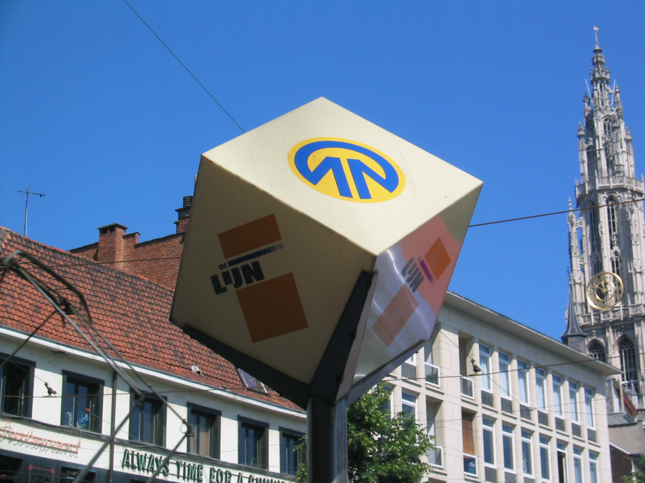 Sign post showing the logo of Premetro Antwerp and company logo of DeLijn